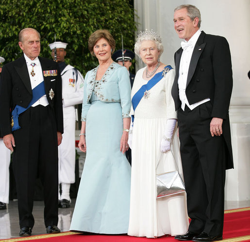 President George W. Bush and Mrs. Laura Bush welcome Her Majesty Queen Elizabeth II and His Royal Highness Prince Philip, Duke of Edinburgh, Monday, May 7, 2007, upon their arrival to the North Portico of the White House for a State Dinner in their honour. White House photo by Eric Draper.